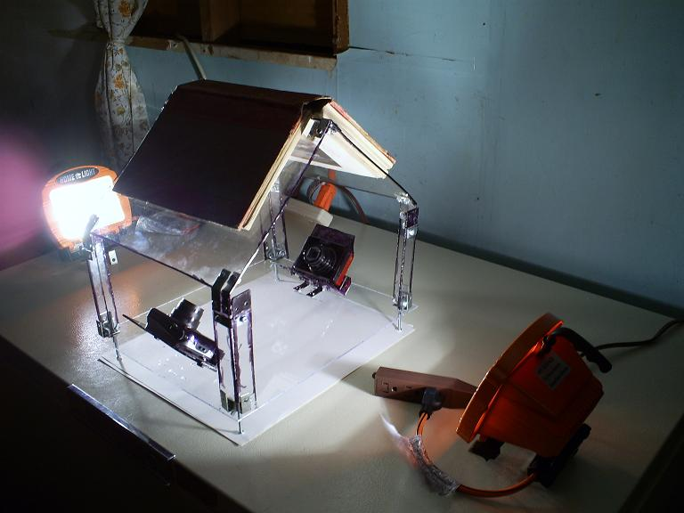 This is a photograph of a digital bookscanner/digitizer, that I designed and built. It's made up of two digital cameras, a red and grey one, with their fronts markered black to avoid reflection glare, and also marker on the edges of the plastic to keep it from glaring. Two halogen lights, a few bolts, nuts, brackets, extension cords, and two pieces of poster board paper to keep the bolts from scratching the metal freezers lid.